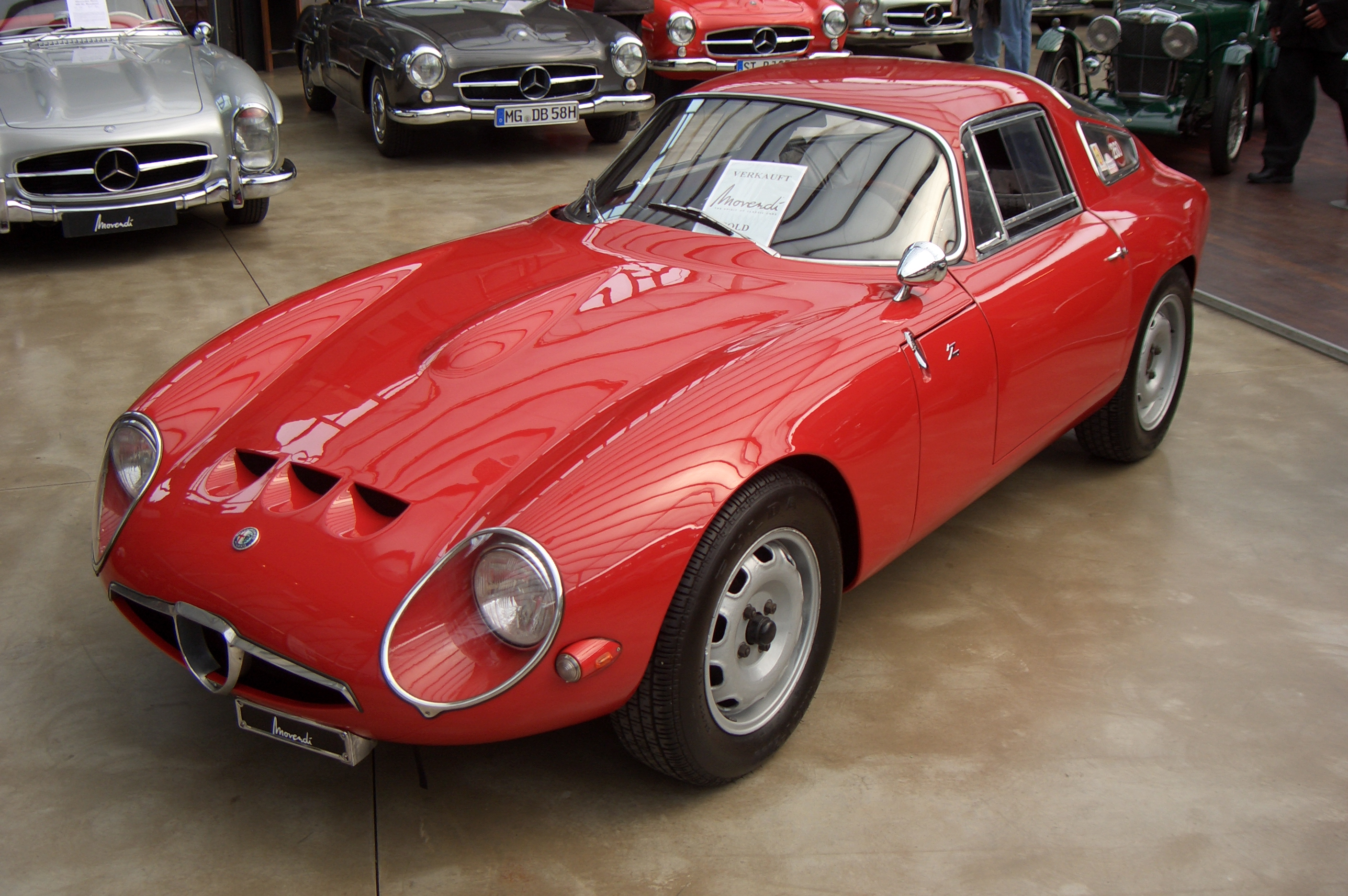 Alfa Romeo Giulia TZ 1, 1963-1965, seen at CLASSIC REMISE, Dusseldorf, Germany